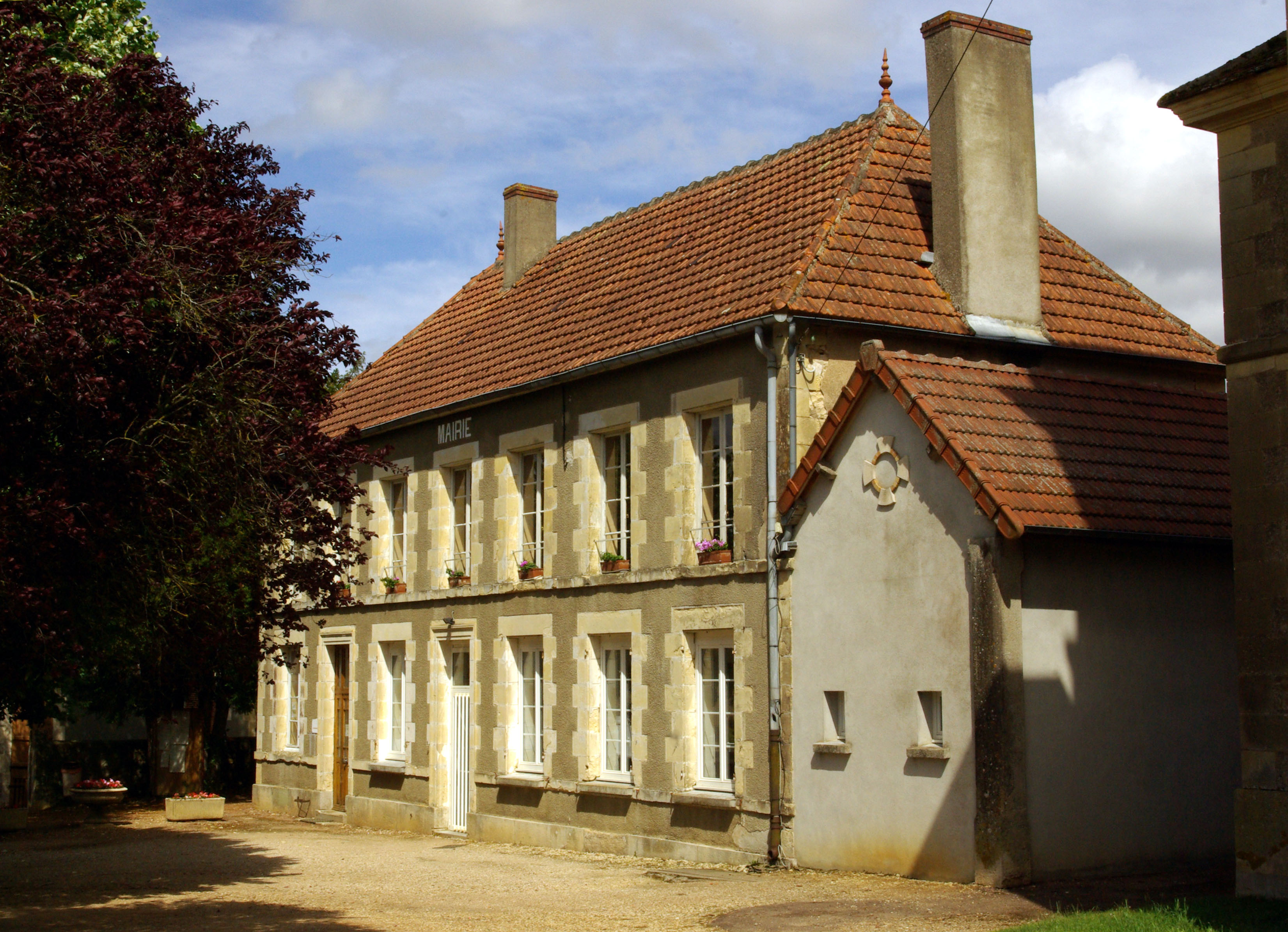 Town hall of Villiers-sur-Yonne